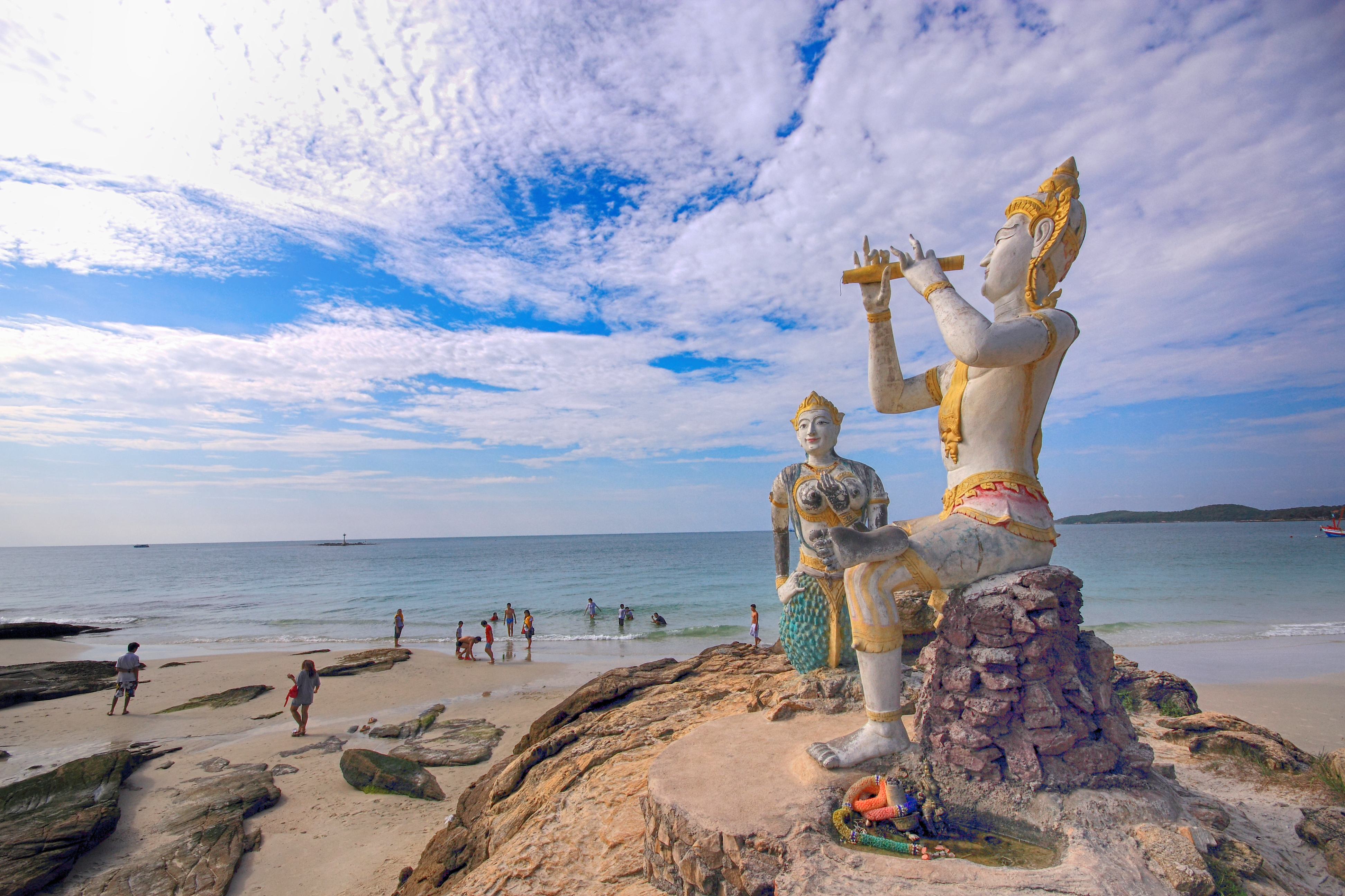 The statues of Phra Aphamani and the mermaid, characters from a famous Thai epic poem, on Ko Samet, Khao Laem Ya – Mu Ko Samet National Park, Rayong Province